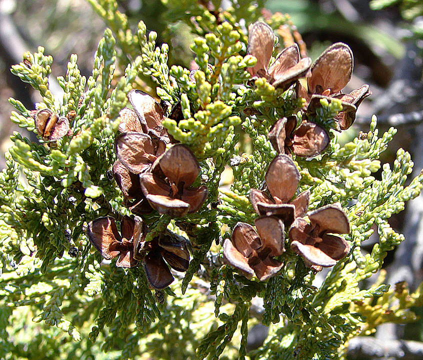 Cordilleran Cypress Austrocedrus chilensis foliage and cones, southeast of the Colbun Reservoir on the Maule River, Chile.